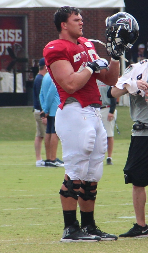 Jake Matthews in 2014